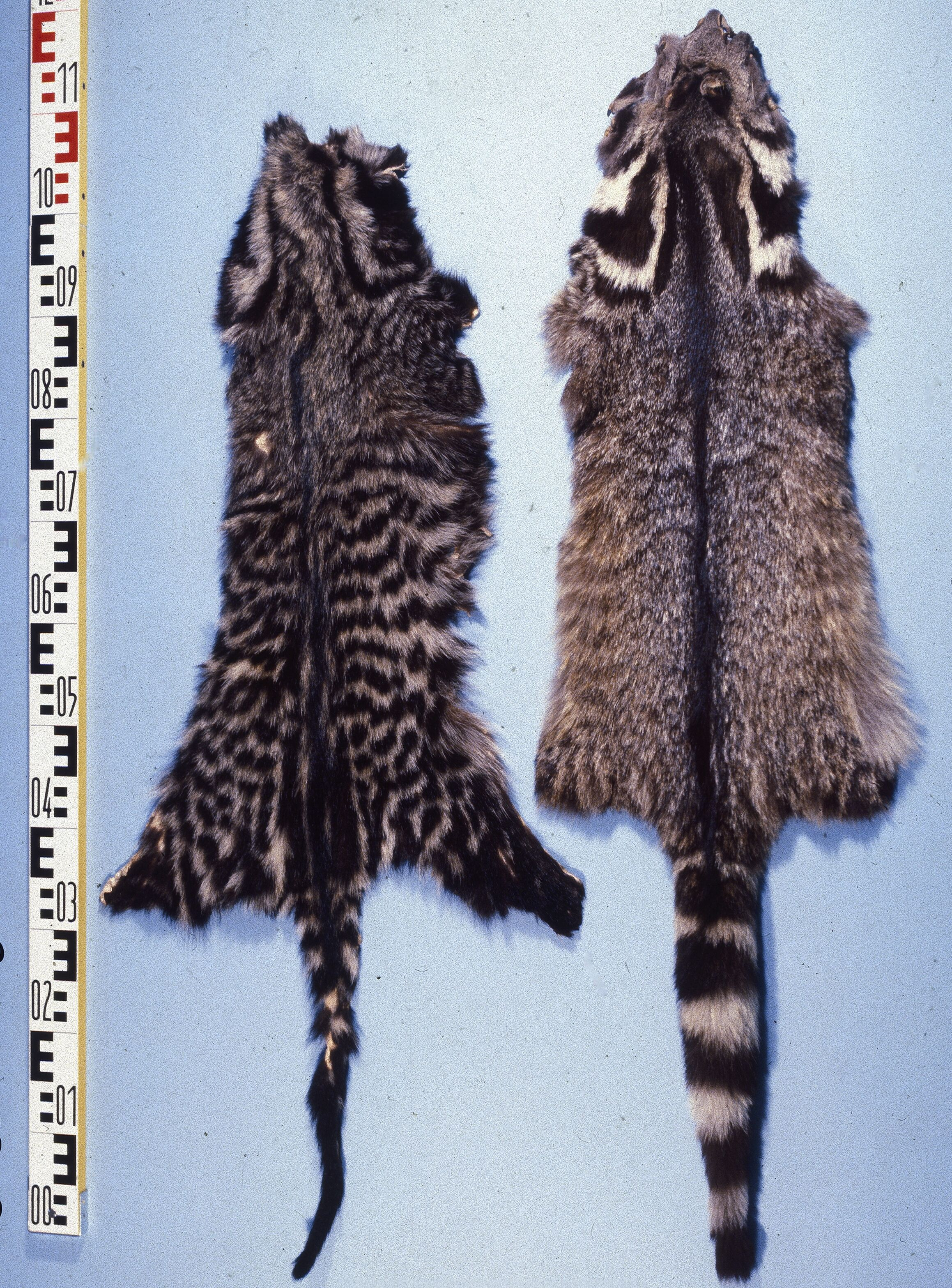 African ziveth (Viverra zivetta) & Large indian civet (Viverra zibetha). Fur skin collection, Bundes-Pelzfachschule, Frankfurt/Main, Germany